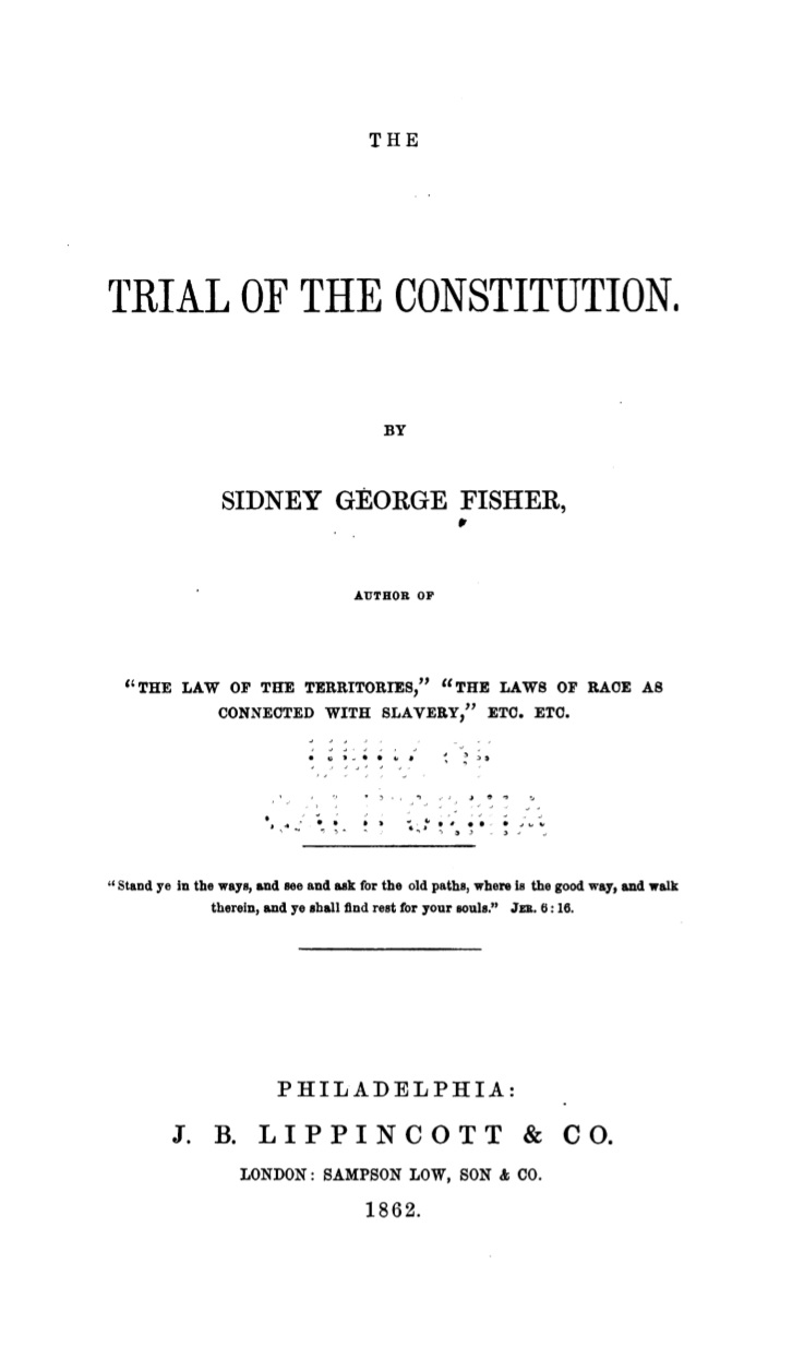 Title page of book by Sidney George Fisher titled "The Trial of the Constitution" published in 1862.